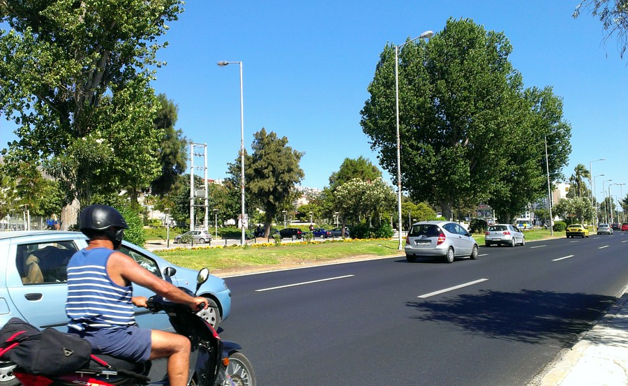 posidonos